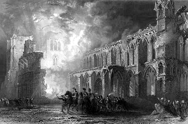 "Destruction of Elgin Cathedral"